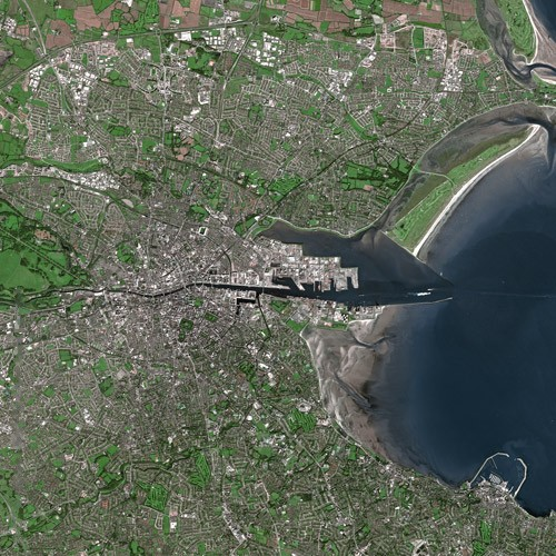 Dublin by SPOT Satellite